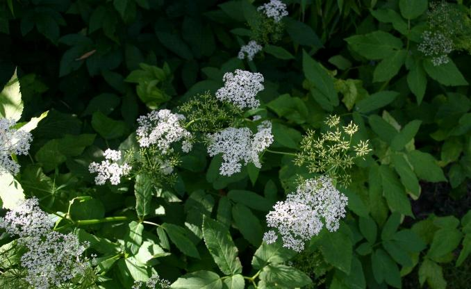 Aegopodium podagraria: flowers and leaves.